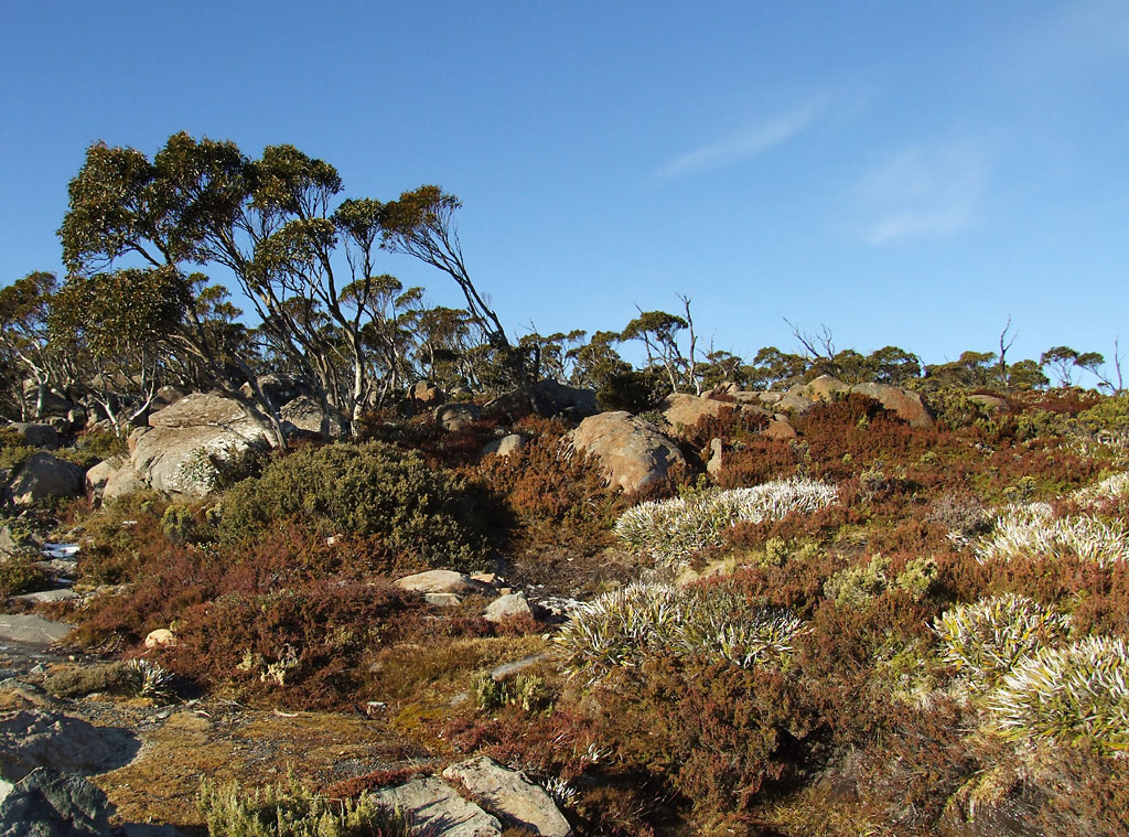 Situated close to the peak (~1067 m. elev.) on the plateau next to the road. It has a very deep organic layer of peat (on solifluction deposits) - the consistently cold and wet anaerobic soil conditions of this perched area does not favour organic breakdown.